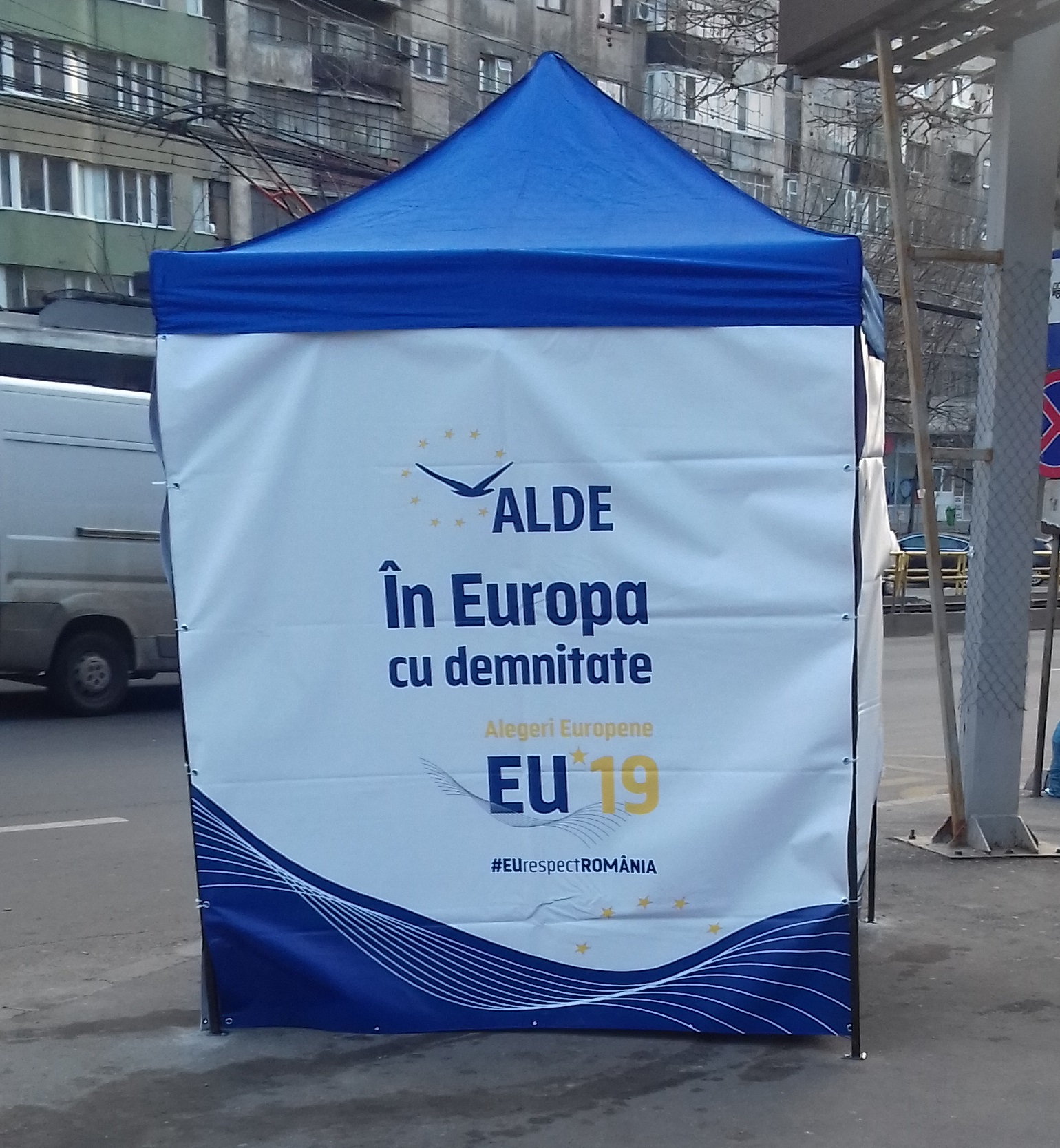 Alliance of Liberals and Democrats (Romania) campaign stand in Bucharest for the 2019 European Parliament election